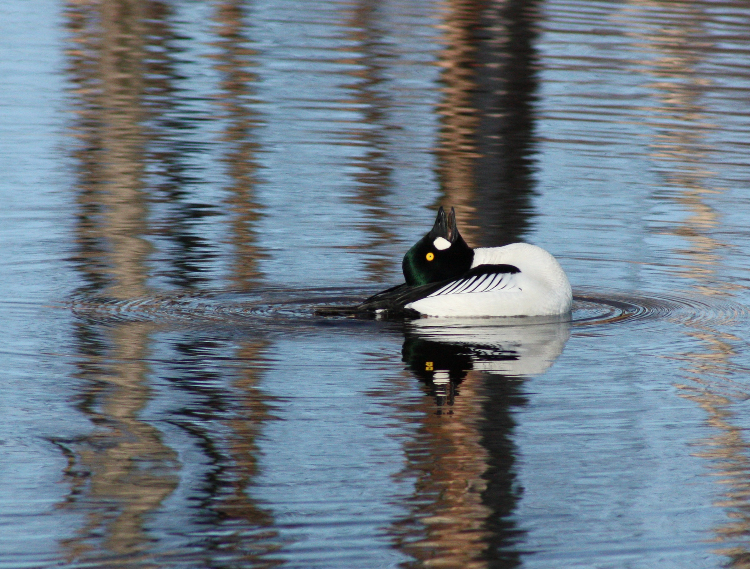 A male common goldeneye (Bucephala clangula) performing courtship ritual dance near Sonnisaari island in Oulu.